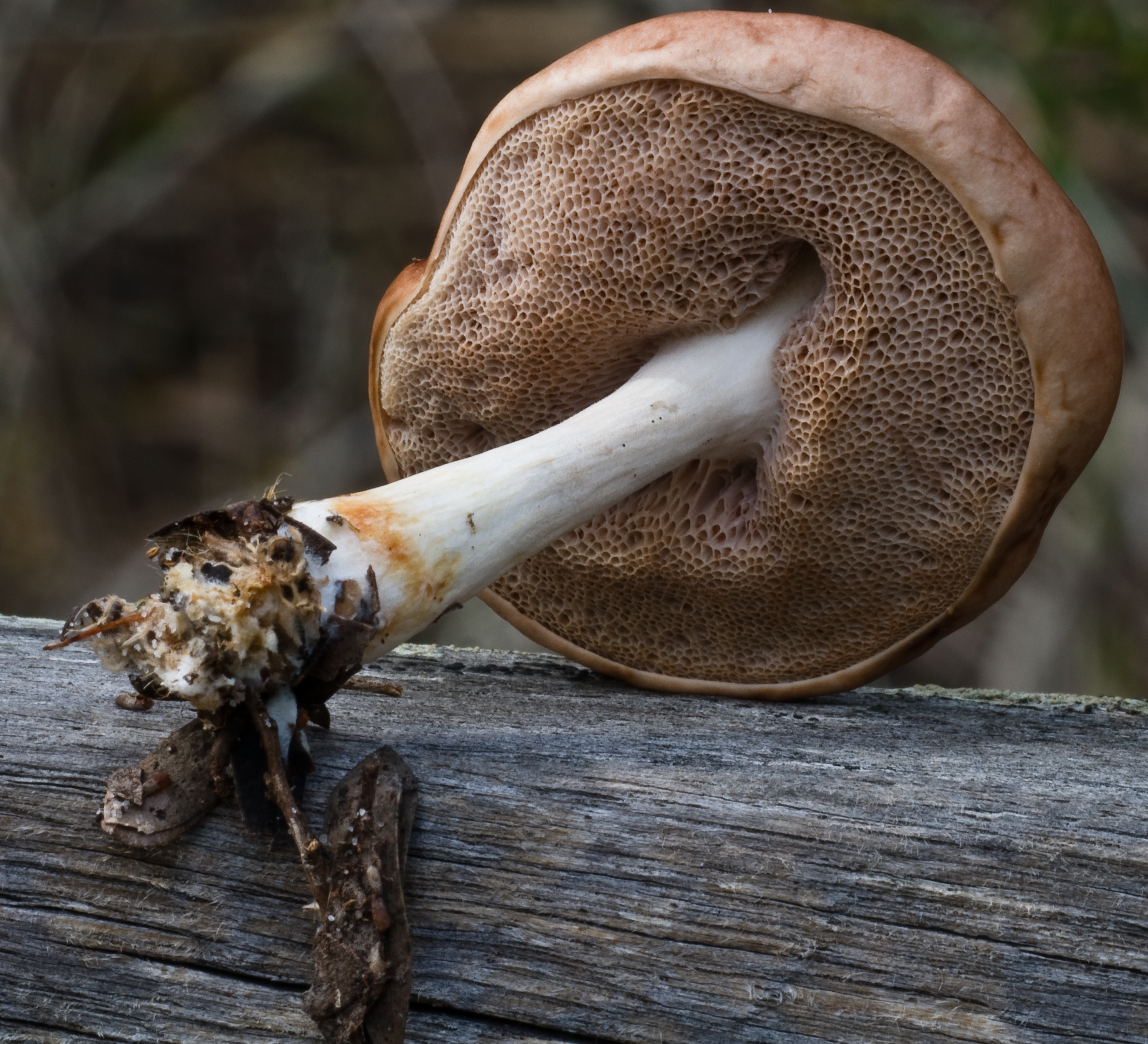 A fruit body of the bolete mushroom Fistulinella mollis Watling. Specimen photographed in Katang Nature Reserve, Dunbogan, New South Wales, Australia.